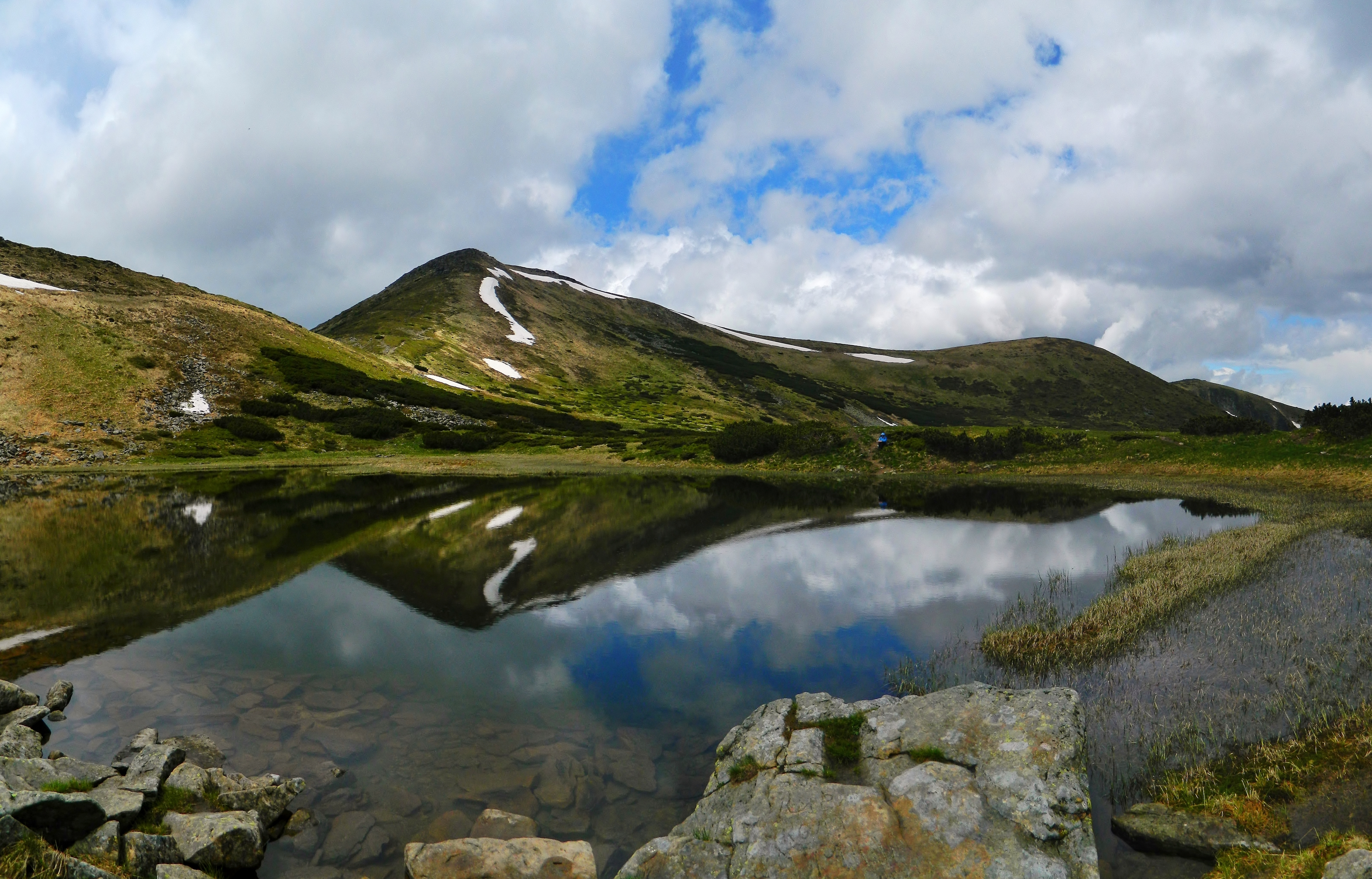 View of Nesamovyte lake with Chornohora range in background